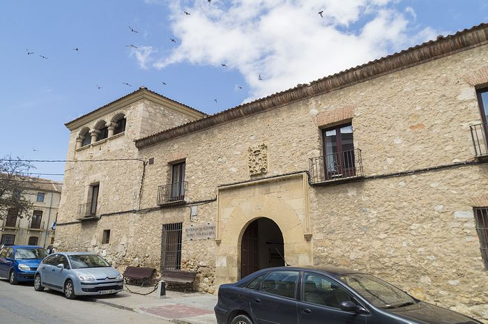 Palacio